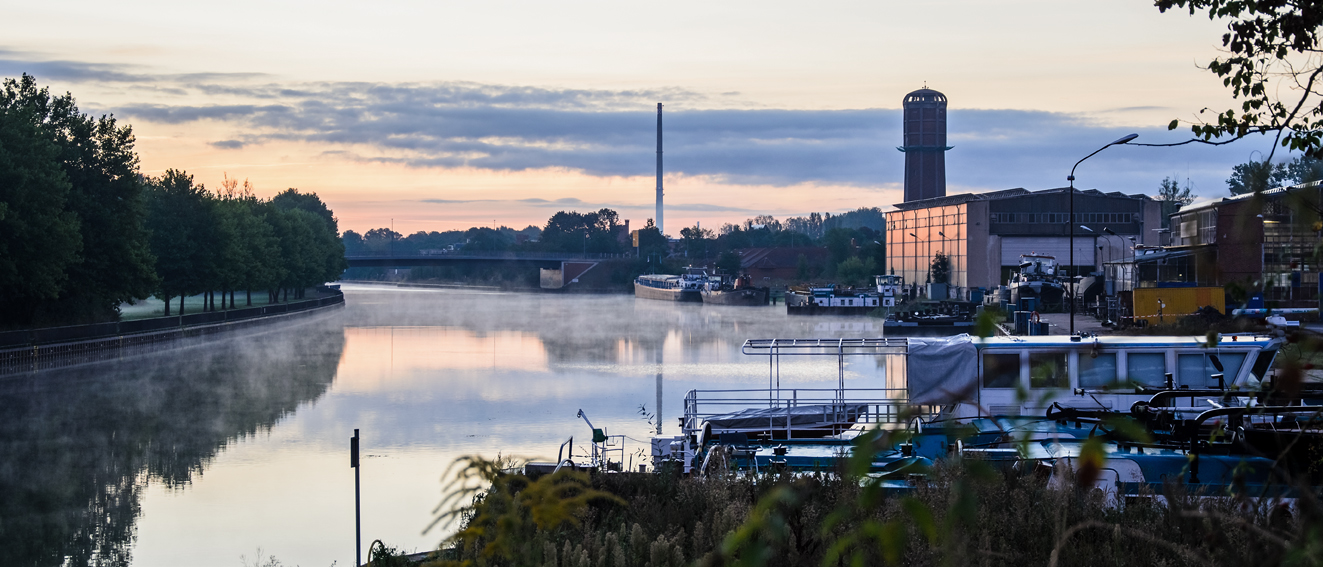 Genthin shipyard on the Elbe-Havel Canal